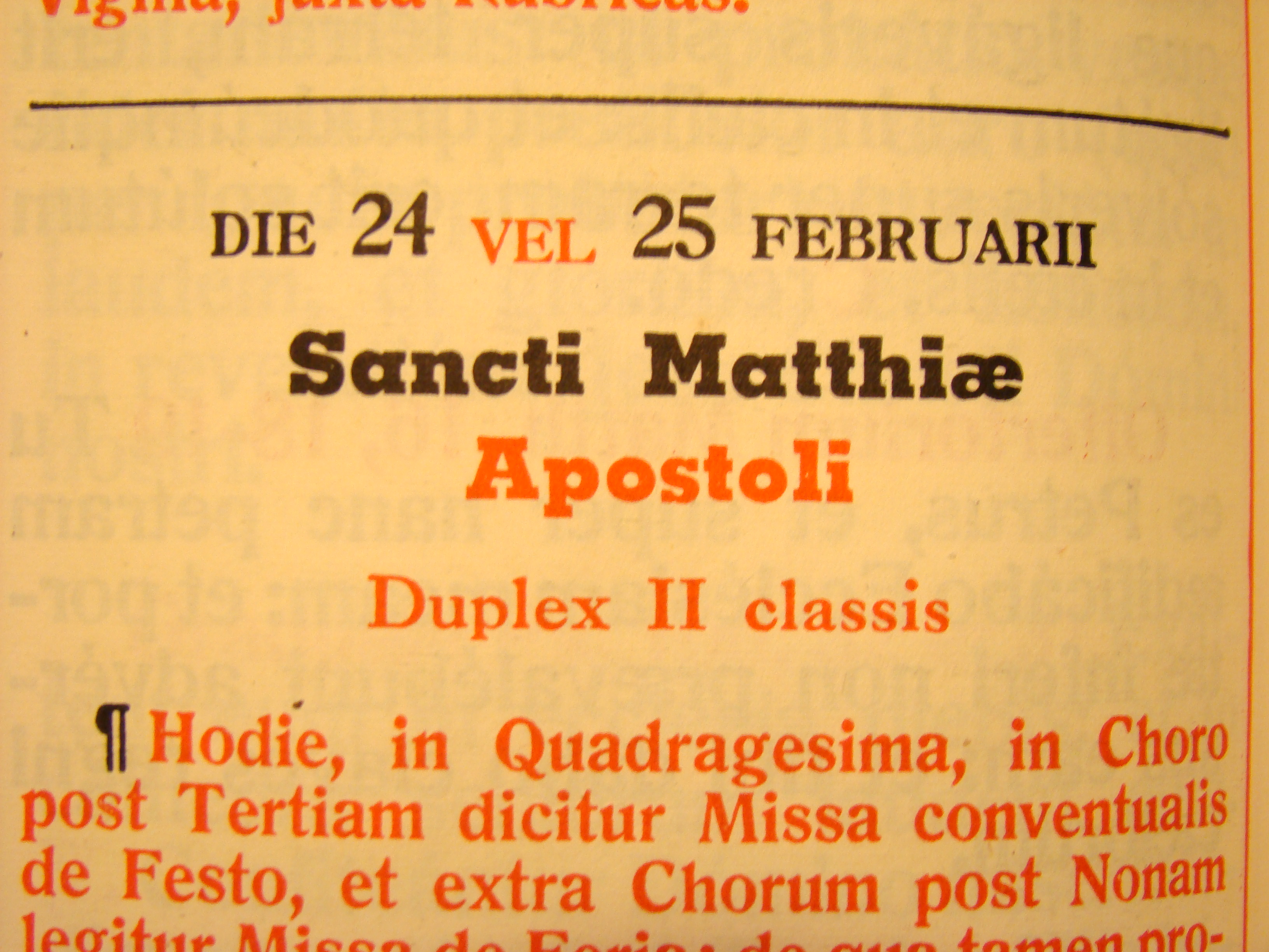 Adding an extra day in leap year in Roman Missal.